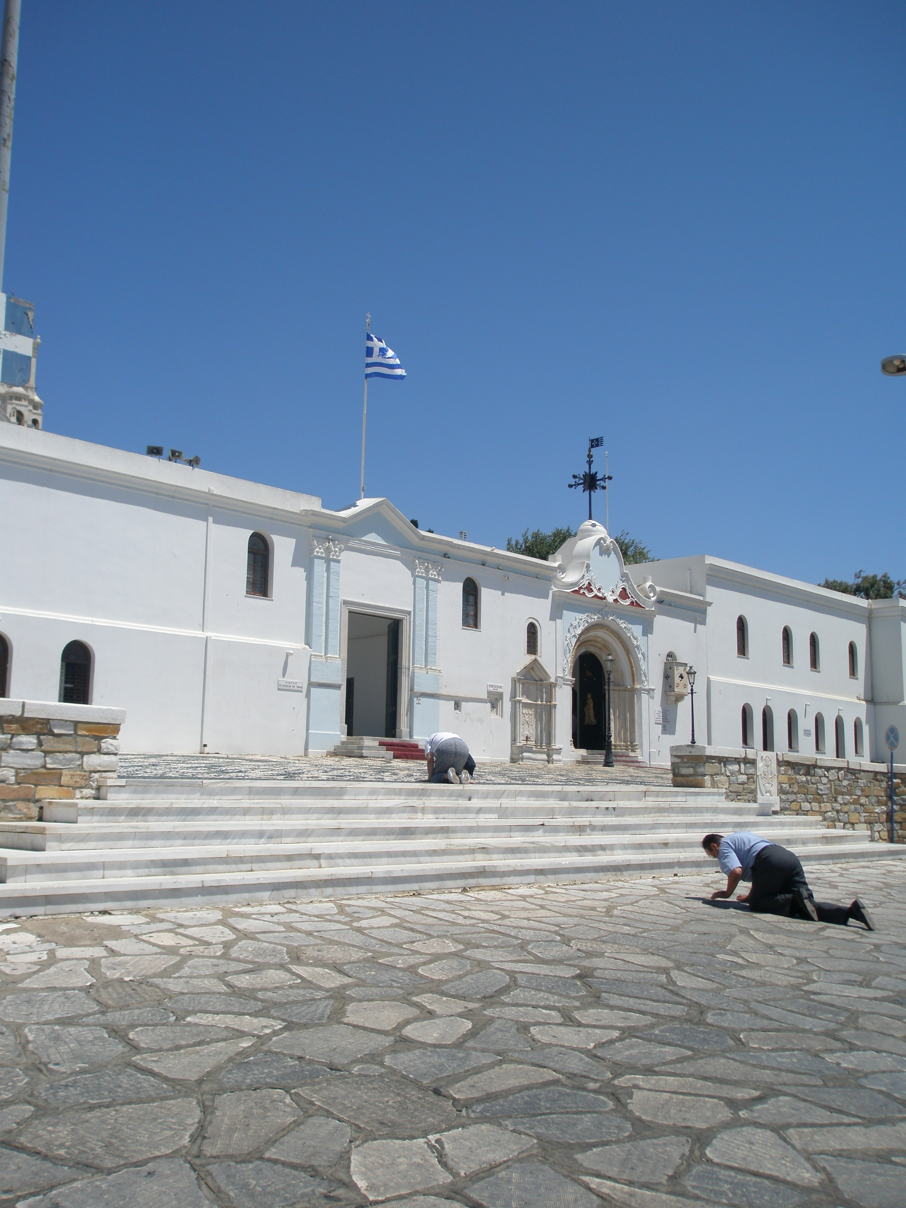 Panagia Tinou church